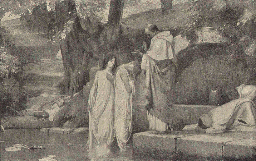 St. Patrick Baptizing Irish Princesses